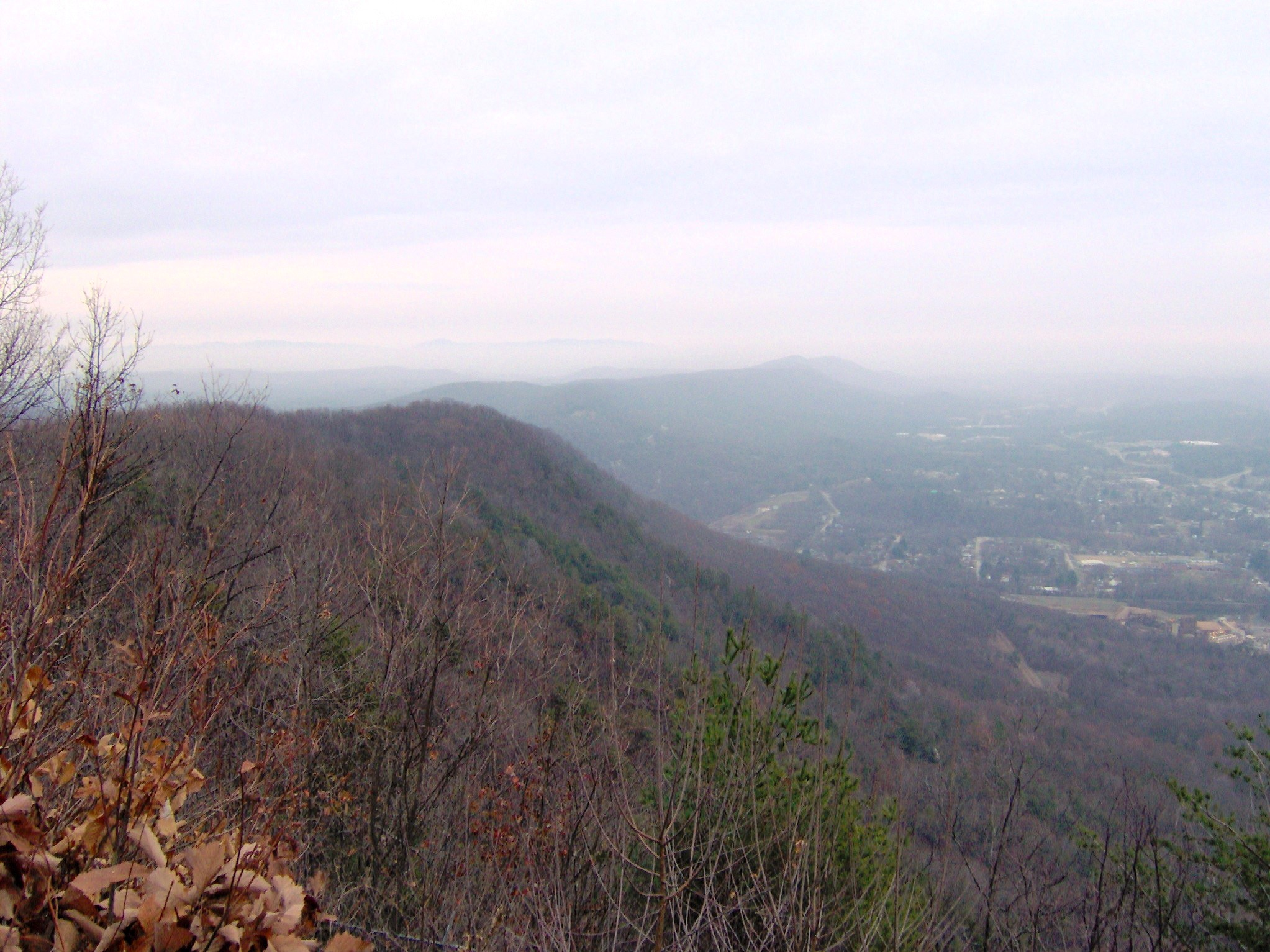 Walden Ridge, the eastern escarpment of the Cumberland Plateau, looking northeast from Mt. Roosevelt (el. 1,912 ft/583 m). Rockwood, Tennessee is at the ridge's base on the right.